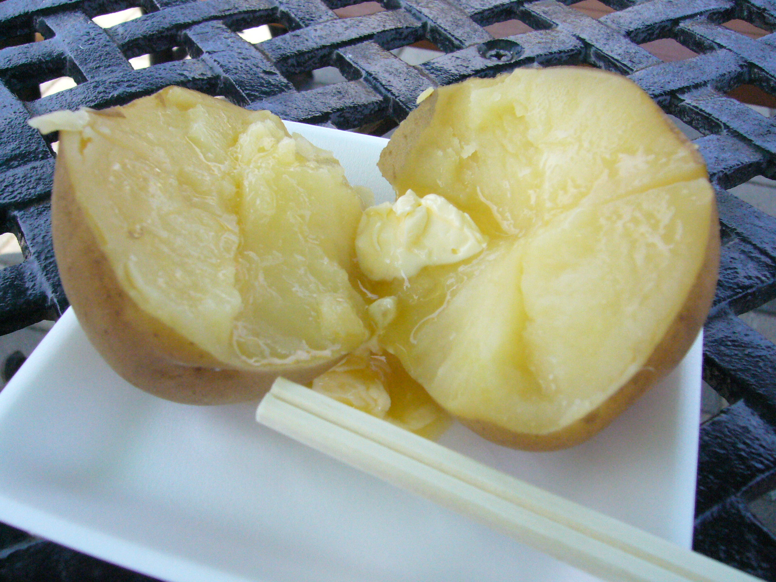 Jaga butter is a famous street food in Japan.